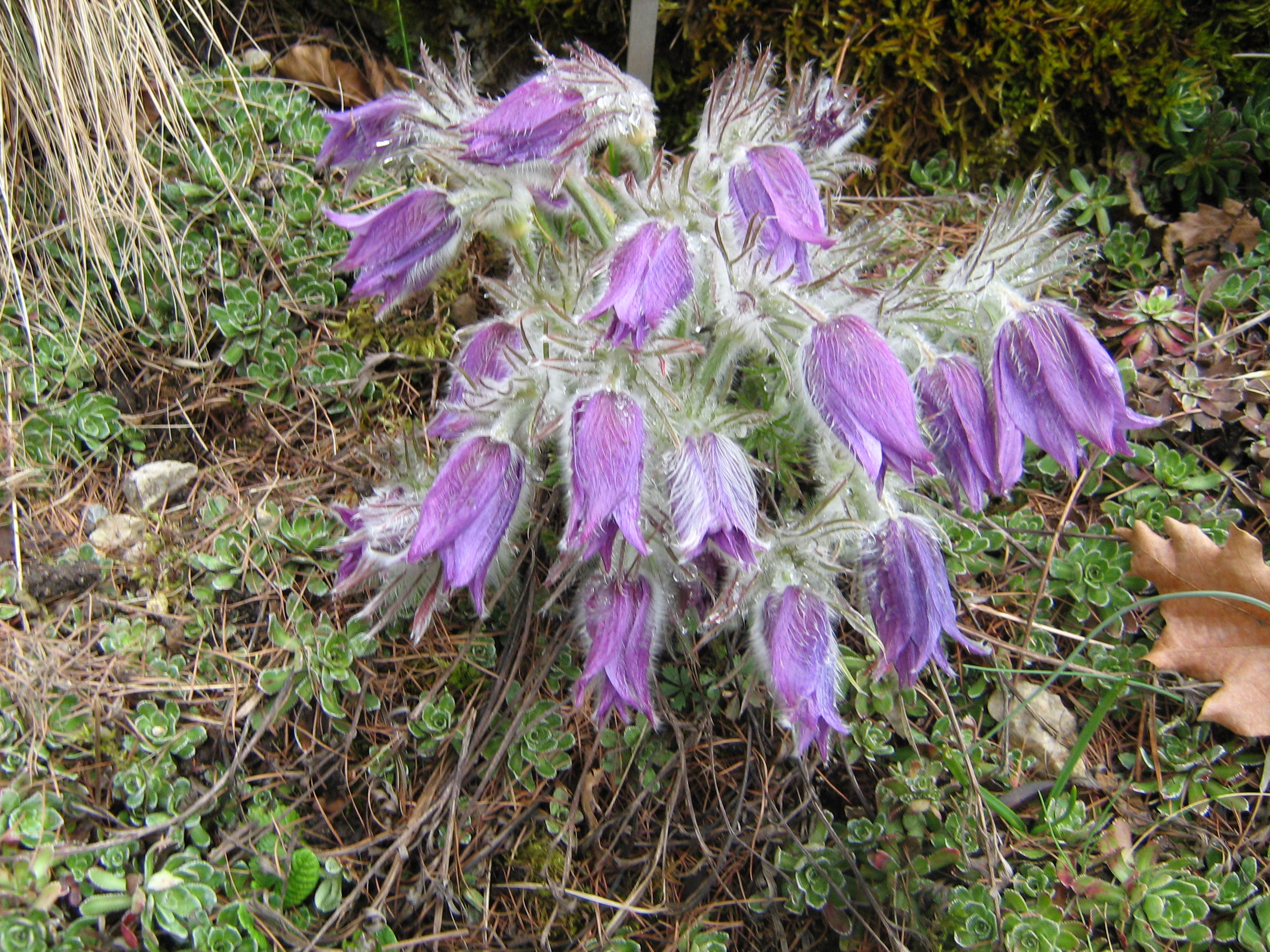 Pulsatilla halleri in the botanic garden of Berne